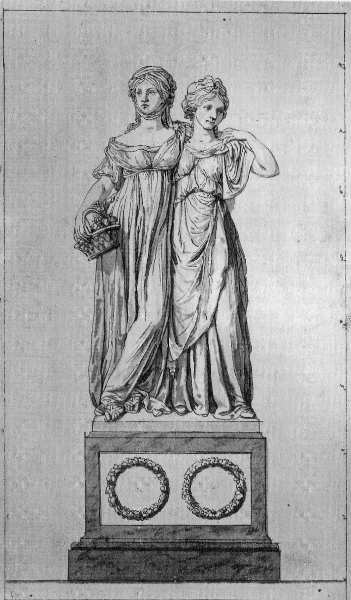 The "Prinzessinnengruppe" (Luise von Mecklenburg-Strelitz and her sister Friederike). Pen-and-ink drawing by Johann Gottfried Schadow, 1795.